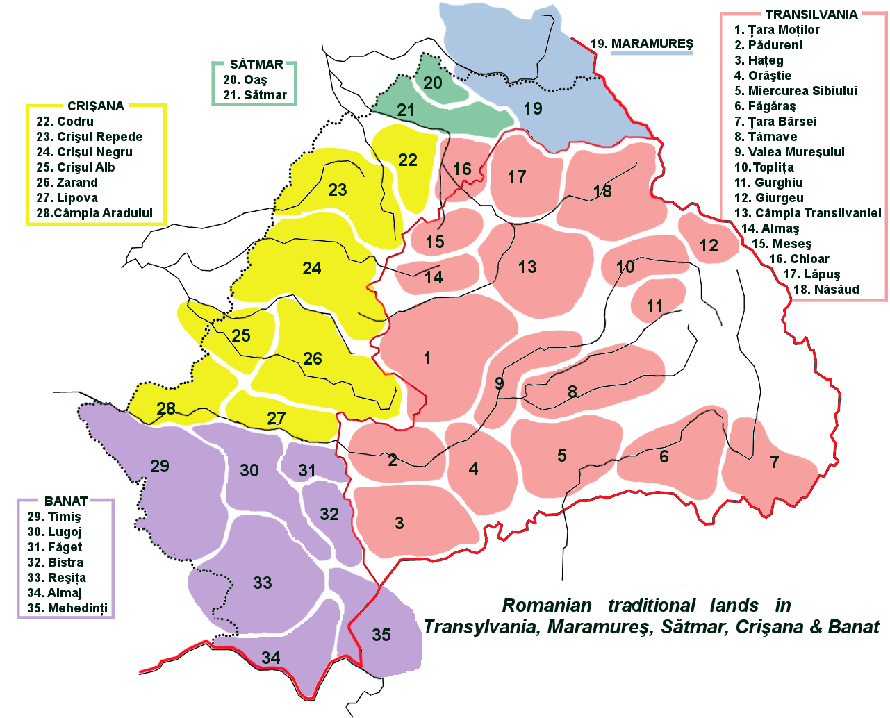 Romanian traditional lands (Transylvania-pink; Maramureş-blue; Sǎtmar-green; Crişana-yellow; Banat-purple).